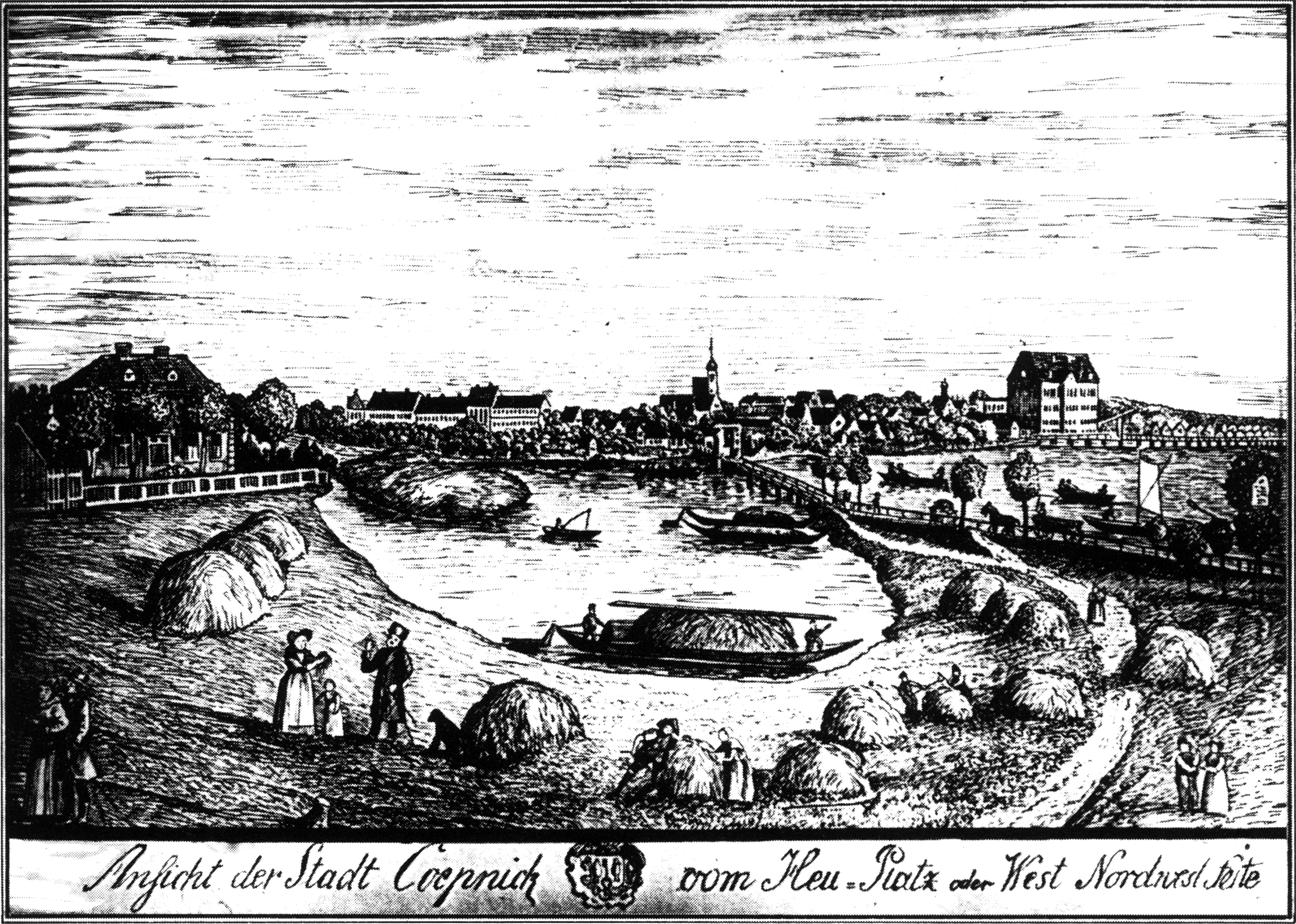 Coepnick, 1811.